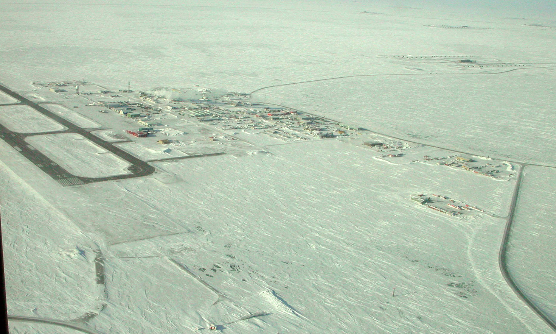 PRUDHOE BAY-DEADHORSE, Alaska (March 12, 2007) – At the northern end of the Trans-Alaska Pipeline, Prudhoe Bay-Deadhorse, Alaska, also serves as the beach detachment for the Applied Physics Laboratory Ice Station (APLIS) which has been established on a drifting ice floe about 180 nautical miles north in support of arctic testing for U.S. and U.K submarines.